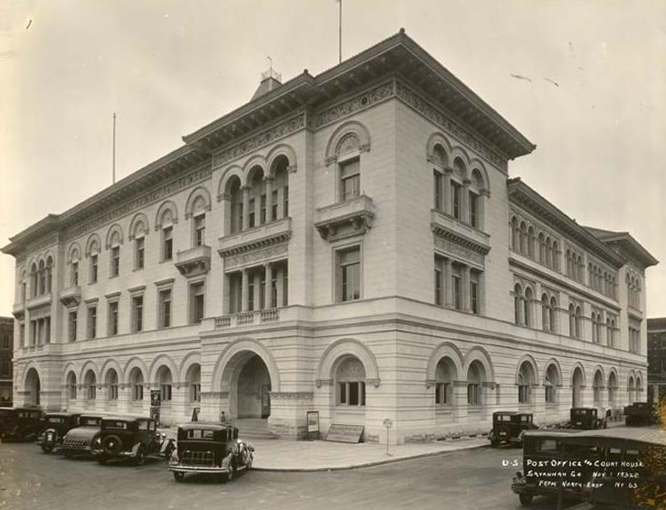 U.S. Post Office and Court House (1901; 1932) Completed in 1899. Supervising Architect: Jeremiah O’Rourke Extension completed in 1932. Supervising Architect of extension: James A. Wetmore Still in use by the U.S. District Court for the Southern District of Georgia. Renamed the Tomochichi United States Courthouse in 2005.